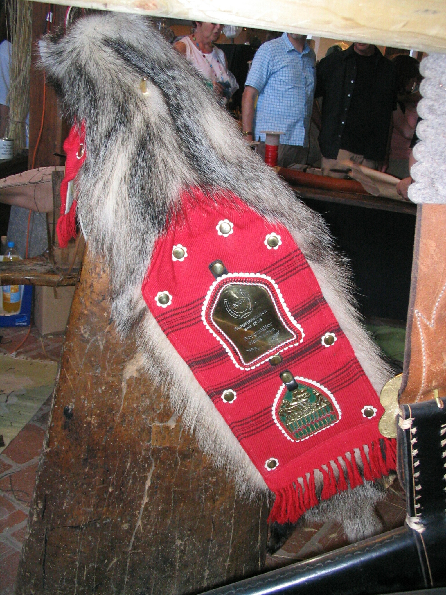 Yoke with badger skin, Salzkammergut, Austria